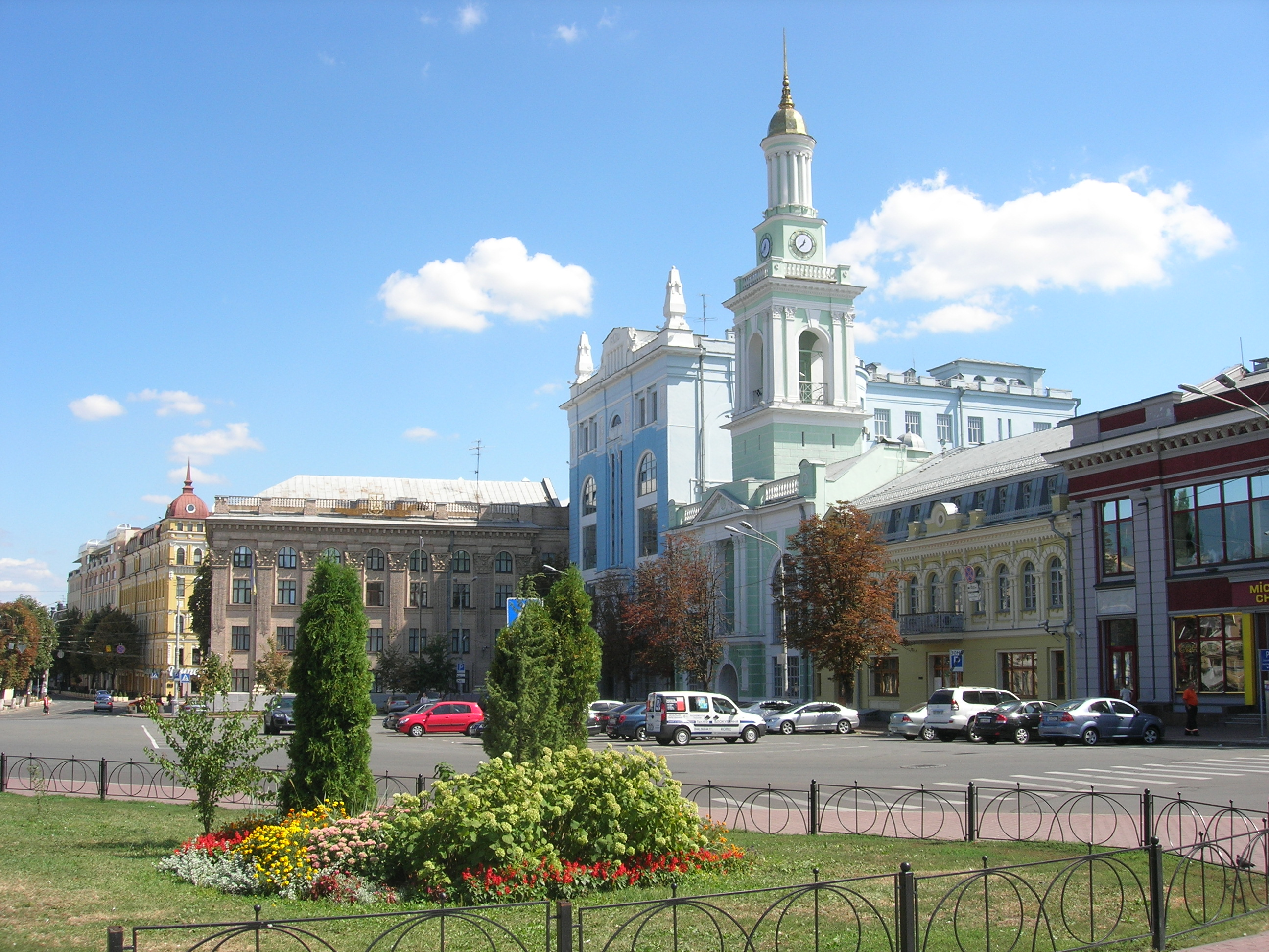 Kontraktova sq. in Kiev